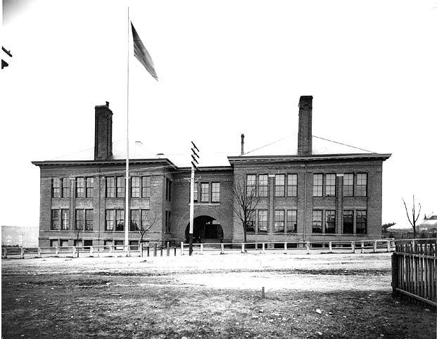 School located between Linden Ave. N. and Fremont Ave. N., N. 39th St. and N. 40th St. Subjects (LCTGM): Schools--Washington (State)--Seattle Subjects (LCSH): B.F. Day School (Seattle, Wash.)